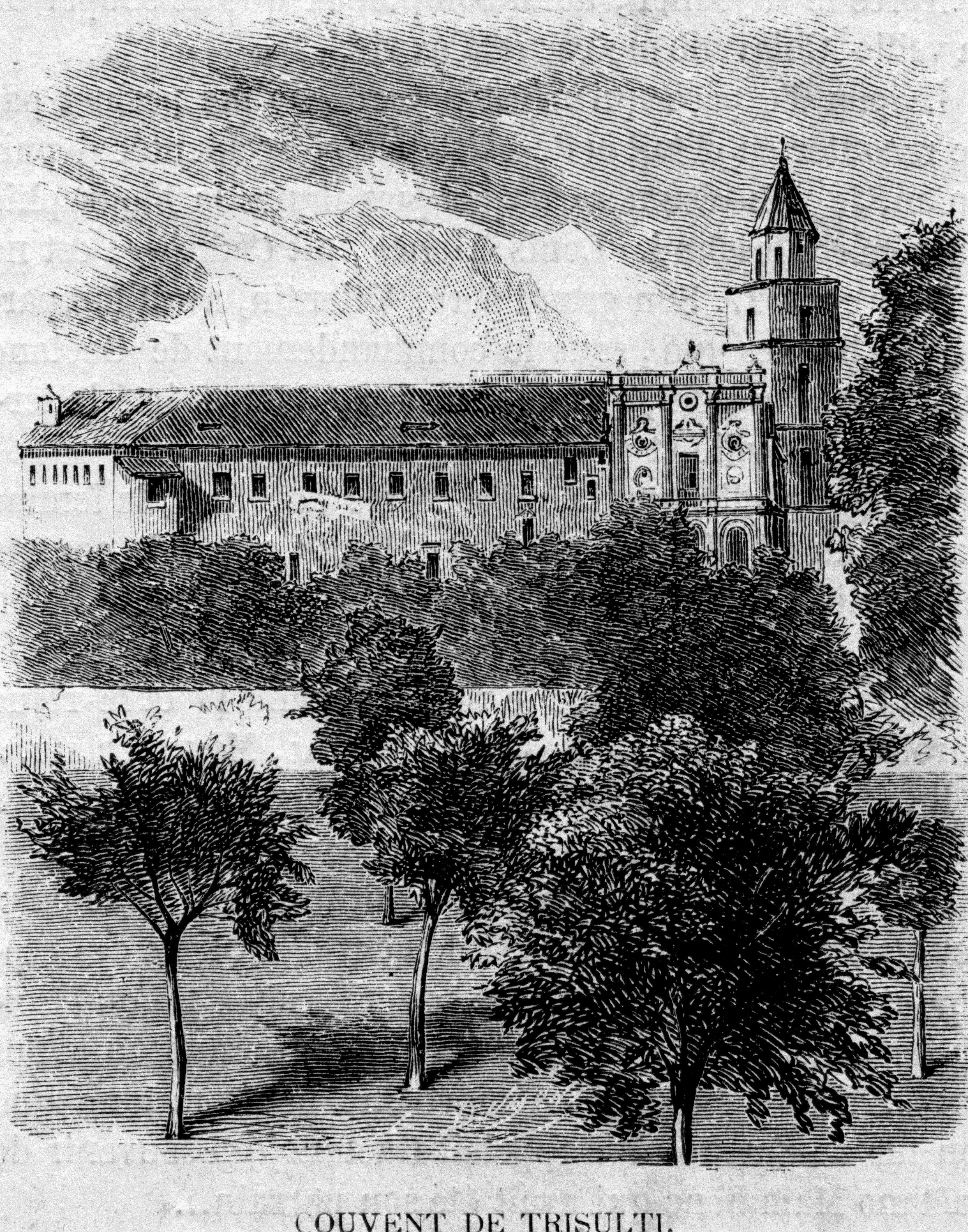 L'Illustration 1862 gravure Couvent de Trisulti